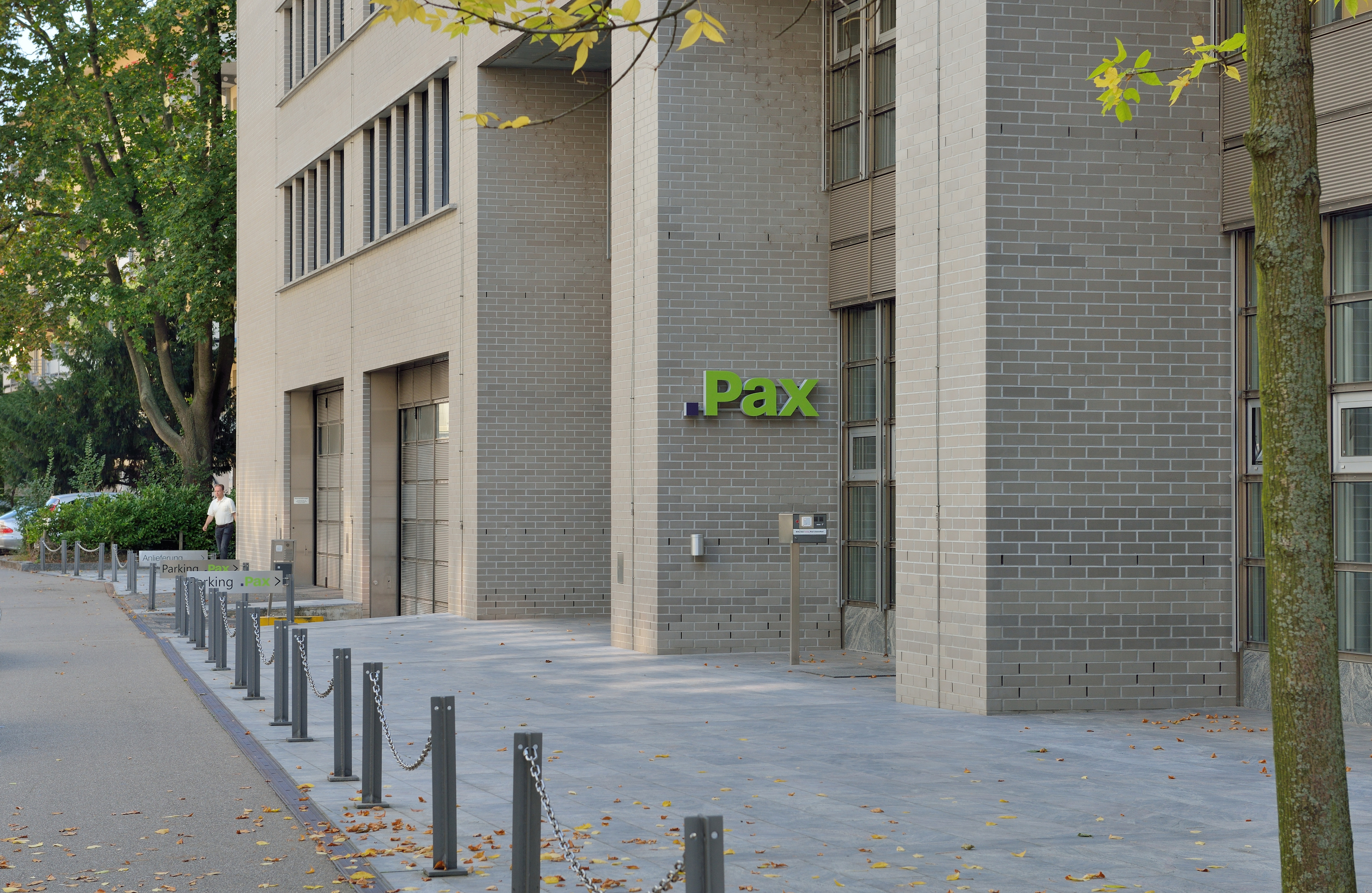 Pax Life Insurance